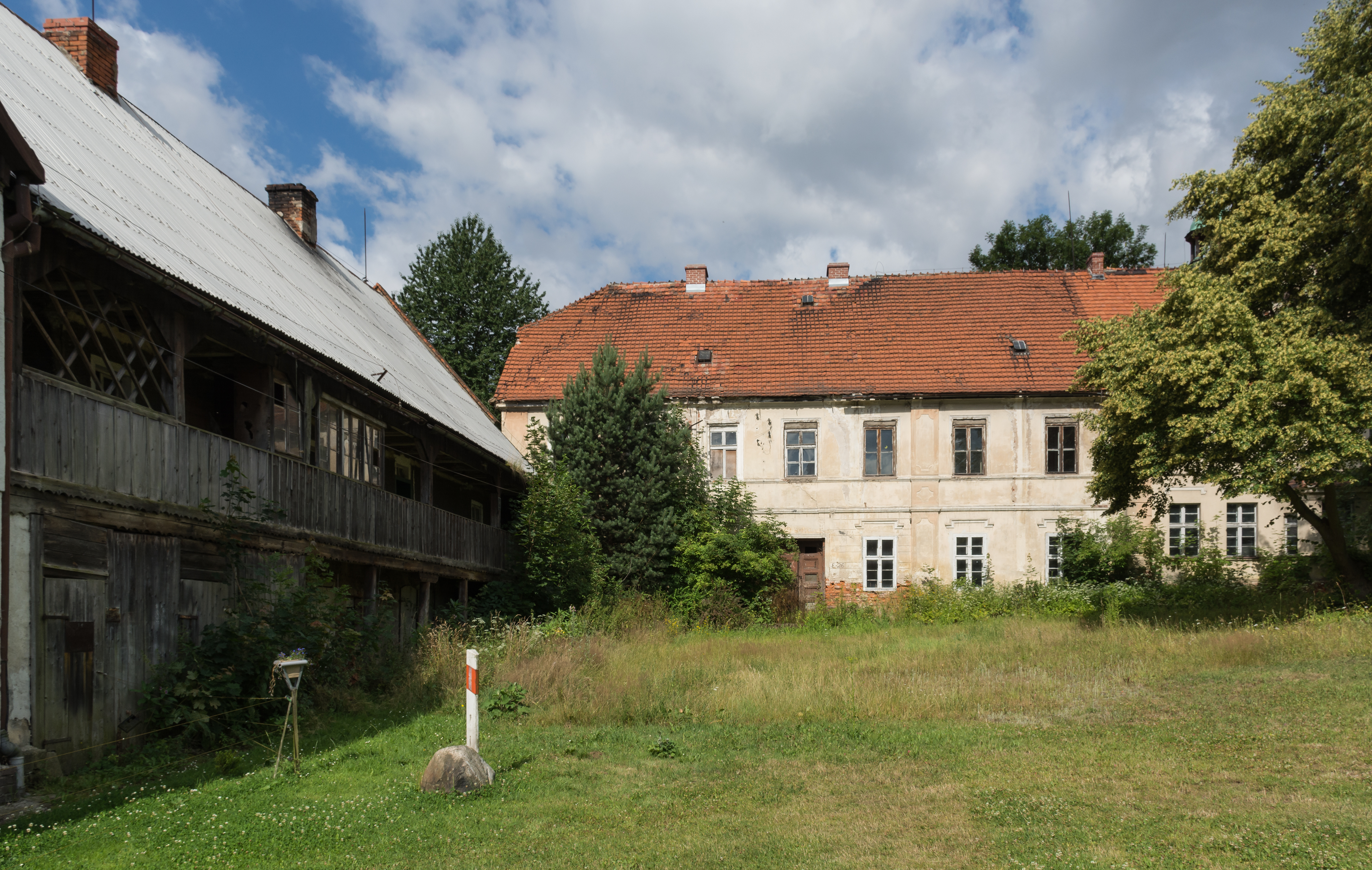 Folwark in Podtynie, house of the administrator